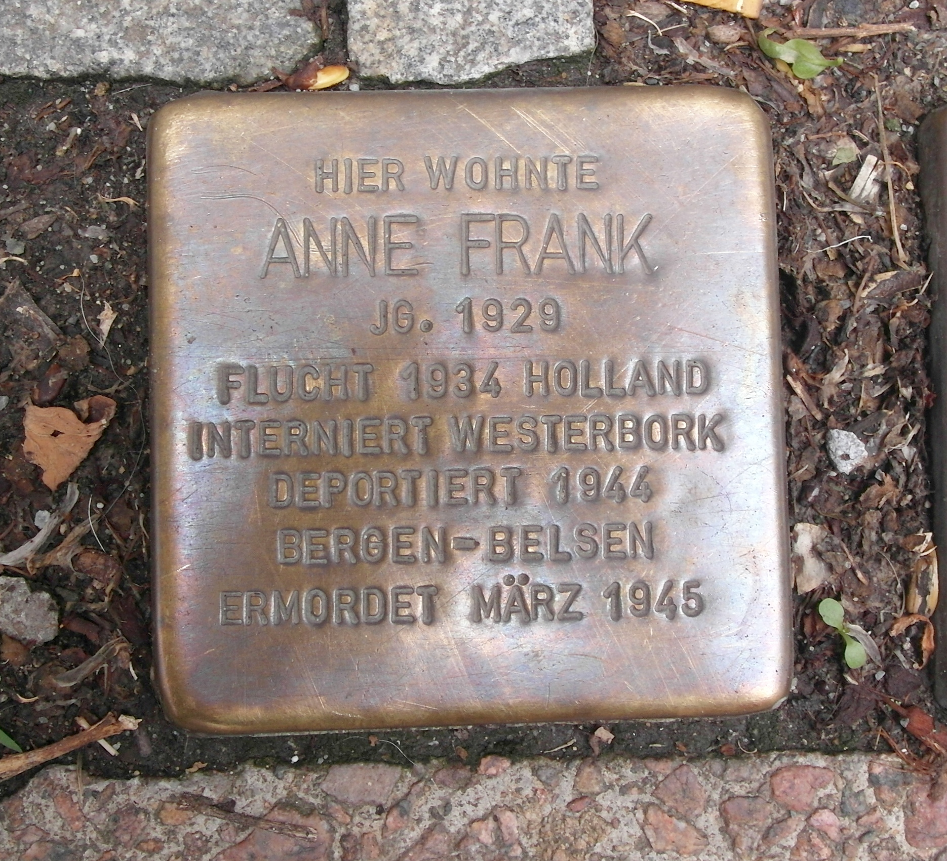 Stolperstein for Anne Frank at the Pastorplatz 1 in Aachen, Germany, where Anne lived in 1933 with her grandmother Rosa Holländer.